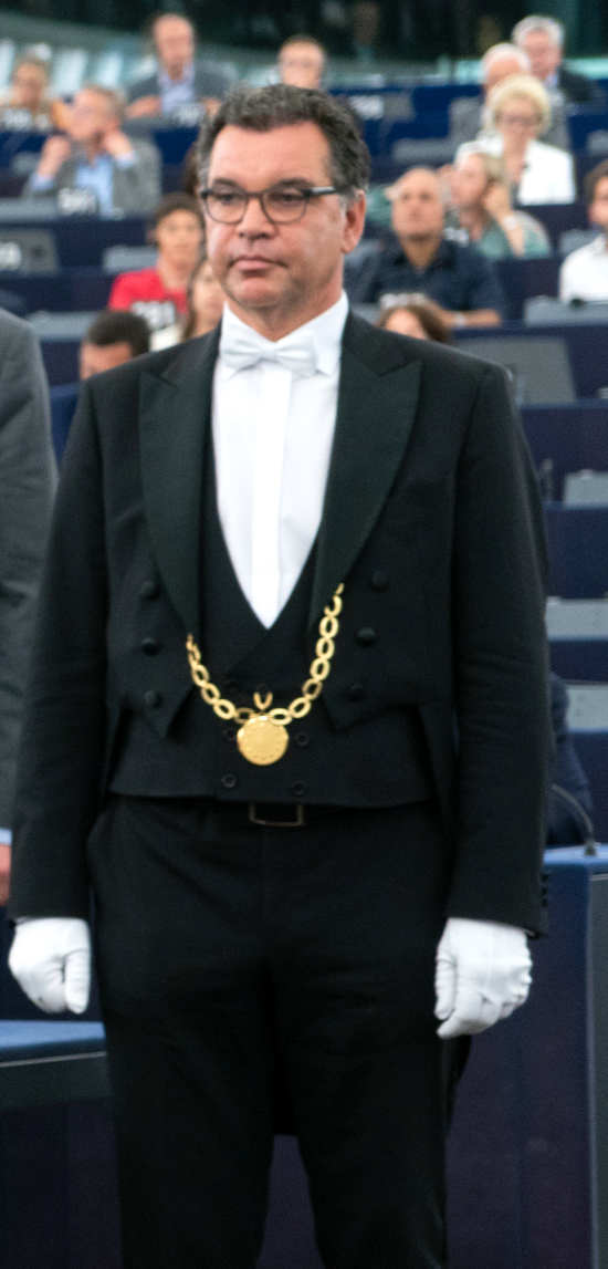 This photo is free to use under Creative Commons license CC-BY-4.0 and must be credited: "CC-BY-4.0: © European Union 2019 – Source: EP". No model release form if applicable. For bigger HR files please contact: webcom-flickr(AT)